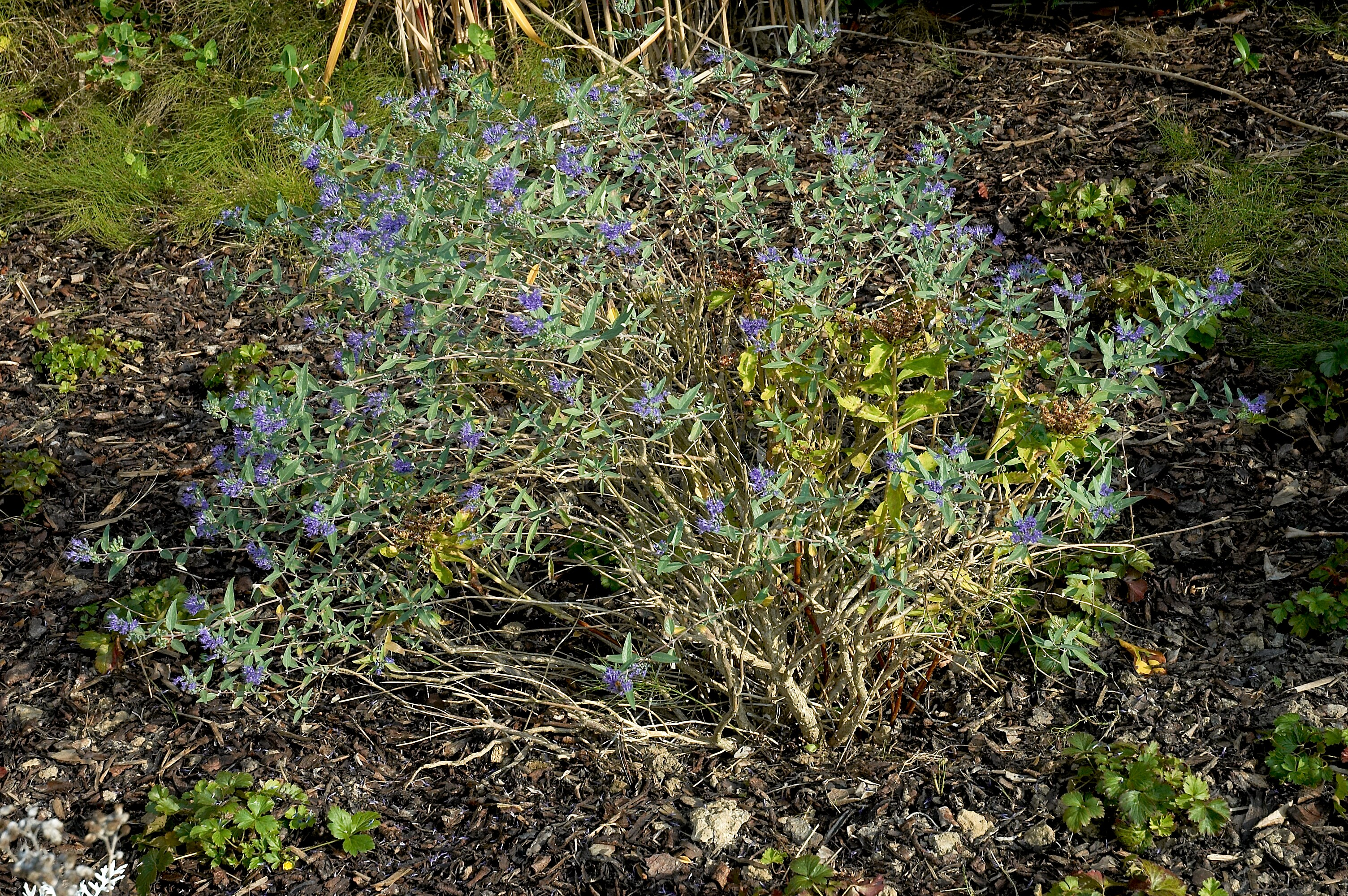 Bluebeard, Blue-spirea, Blue-mist Shrub